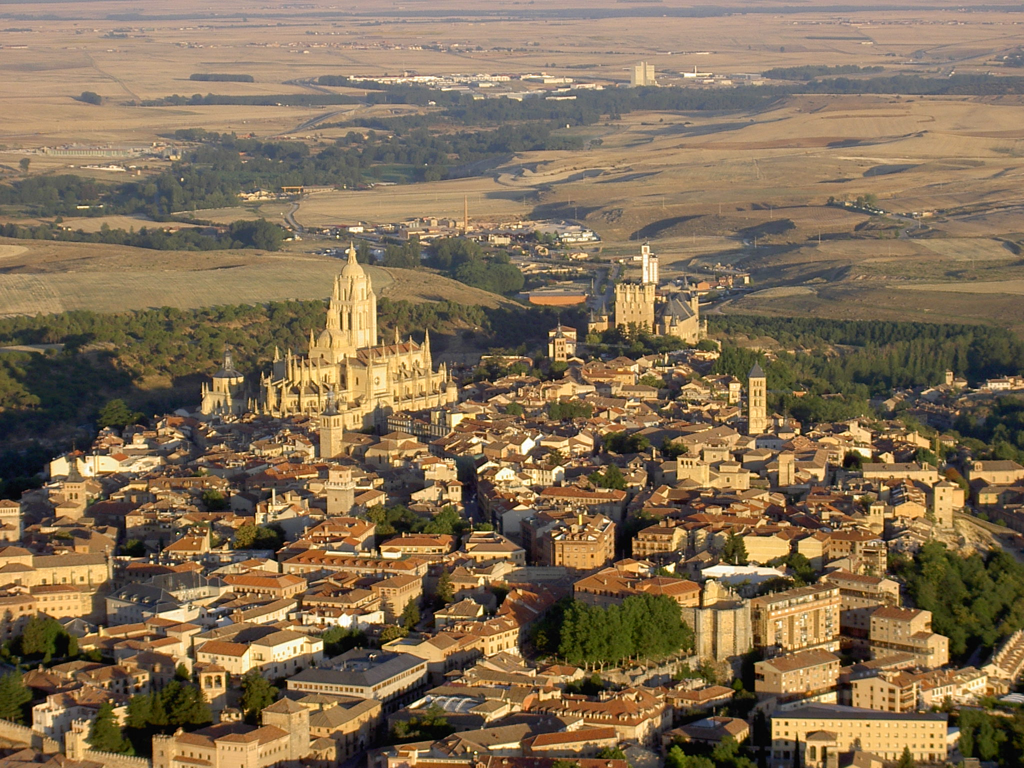 Aerial general view of Segovia (Spain).